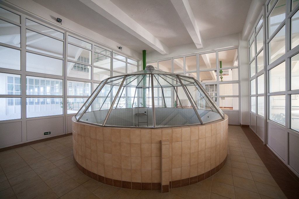 Úpravna vody Vyšní Lhoty - přítok surové vody z nádrže Morávka, autor: Boris Renner